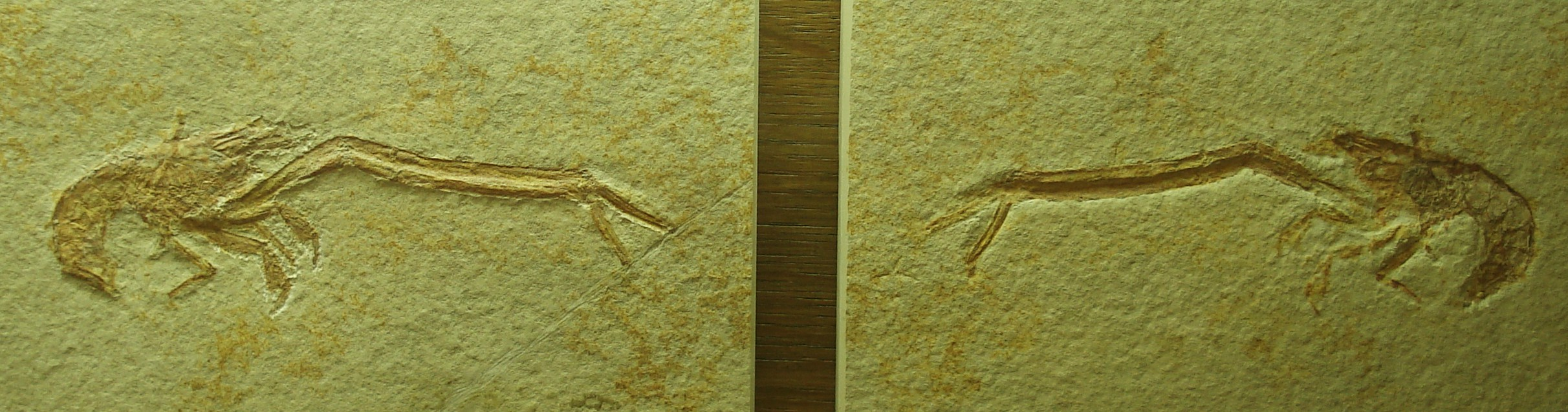 fossil of Mecochirus longimanatus